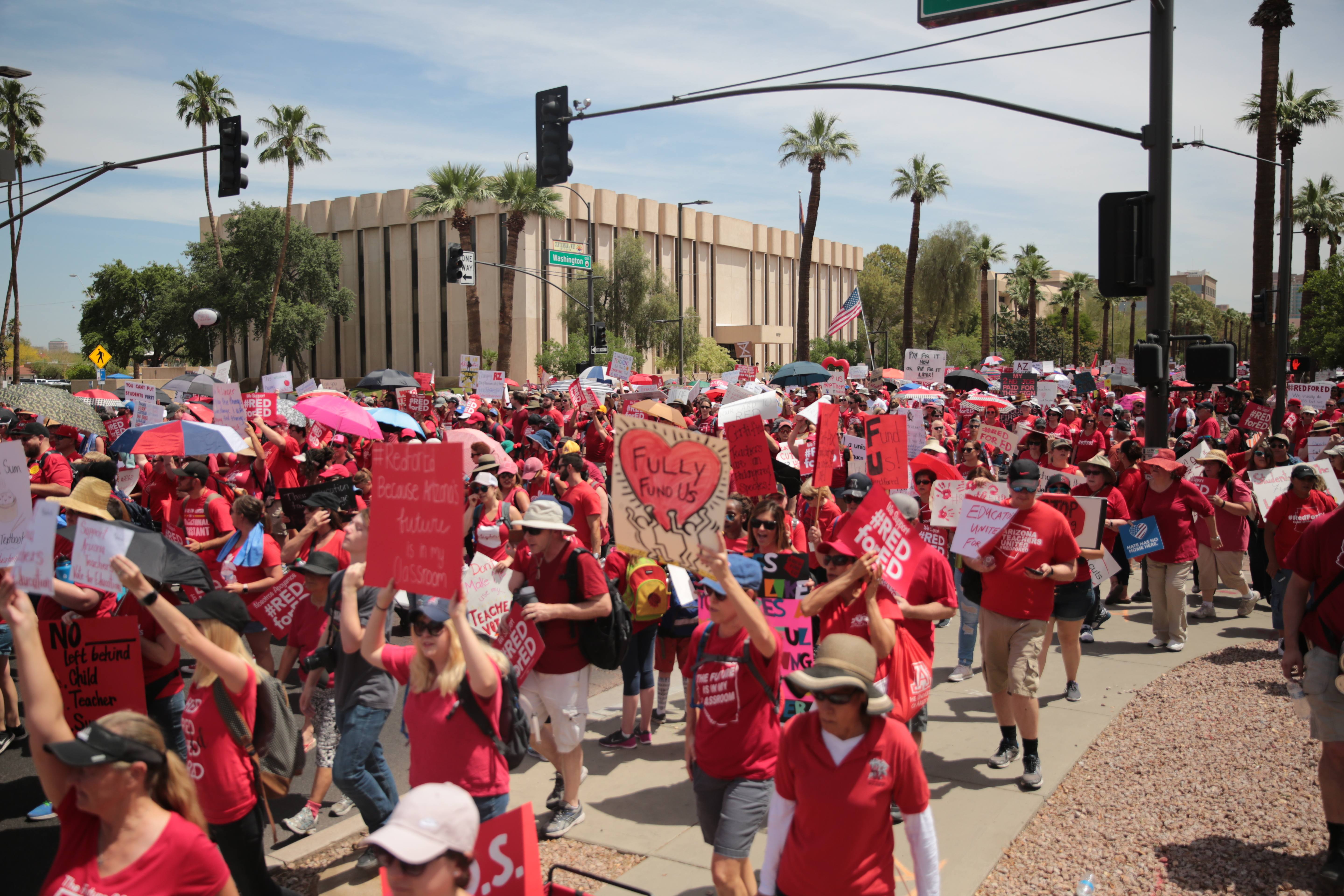 Photo by Gage Skidmore for Arizona Education Association Arizona teacher's strike and rally on April 26, 2018.